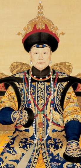 Portrait of the Xiaosheng Empress Dowager, Qianlong period, 1751, by anonymous court artists. Hanging scroll, colour on silk. 230.5×141.3 cm. The Palace Museum, Beijing. This portrait presents the Xiaosheng Empress Dowager (1691—1771), the mother of the Qianlong Emperor (r. 1736—95), on her sixtieth birthday.